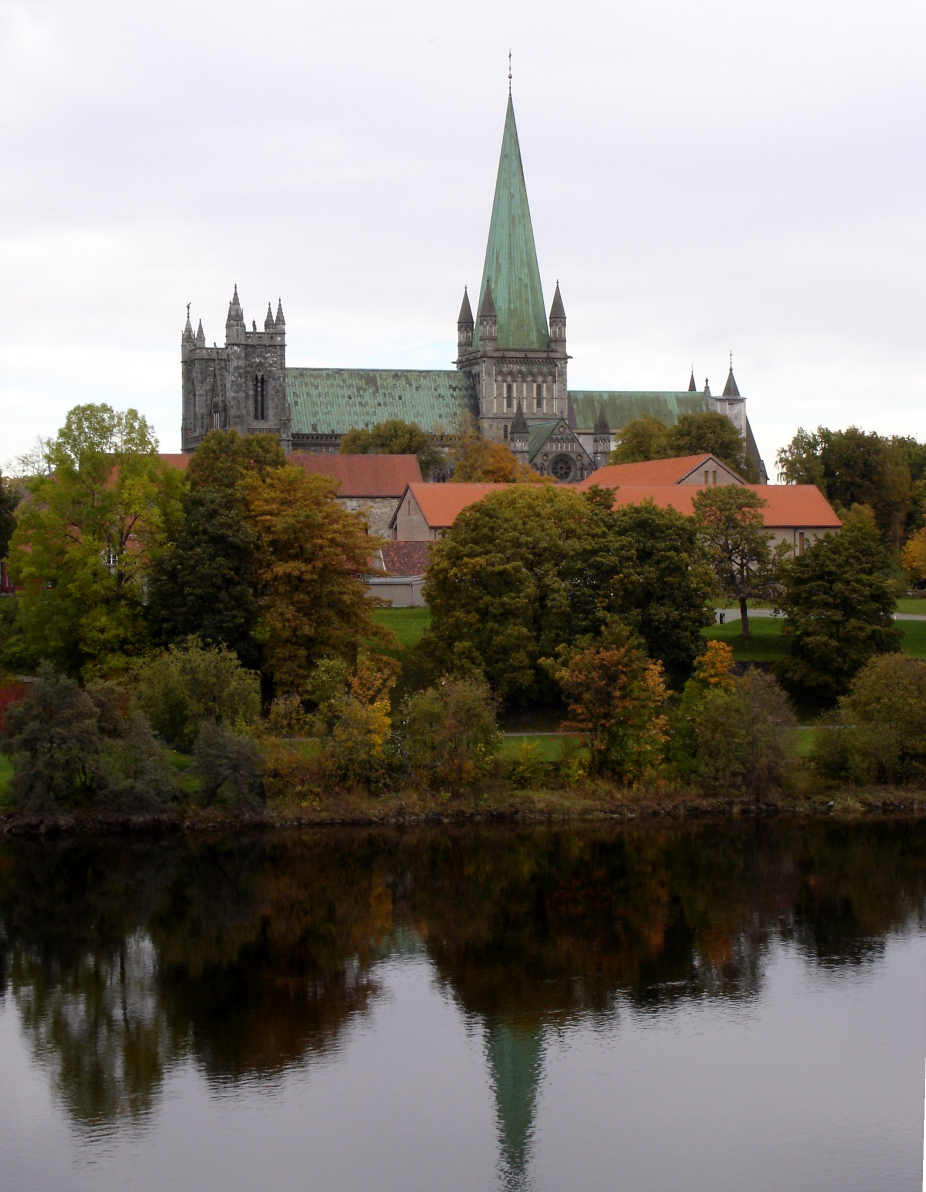 Nidarosdomen, Trondheim, seen from "Elgseterbrua".